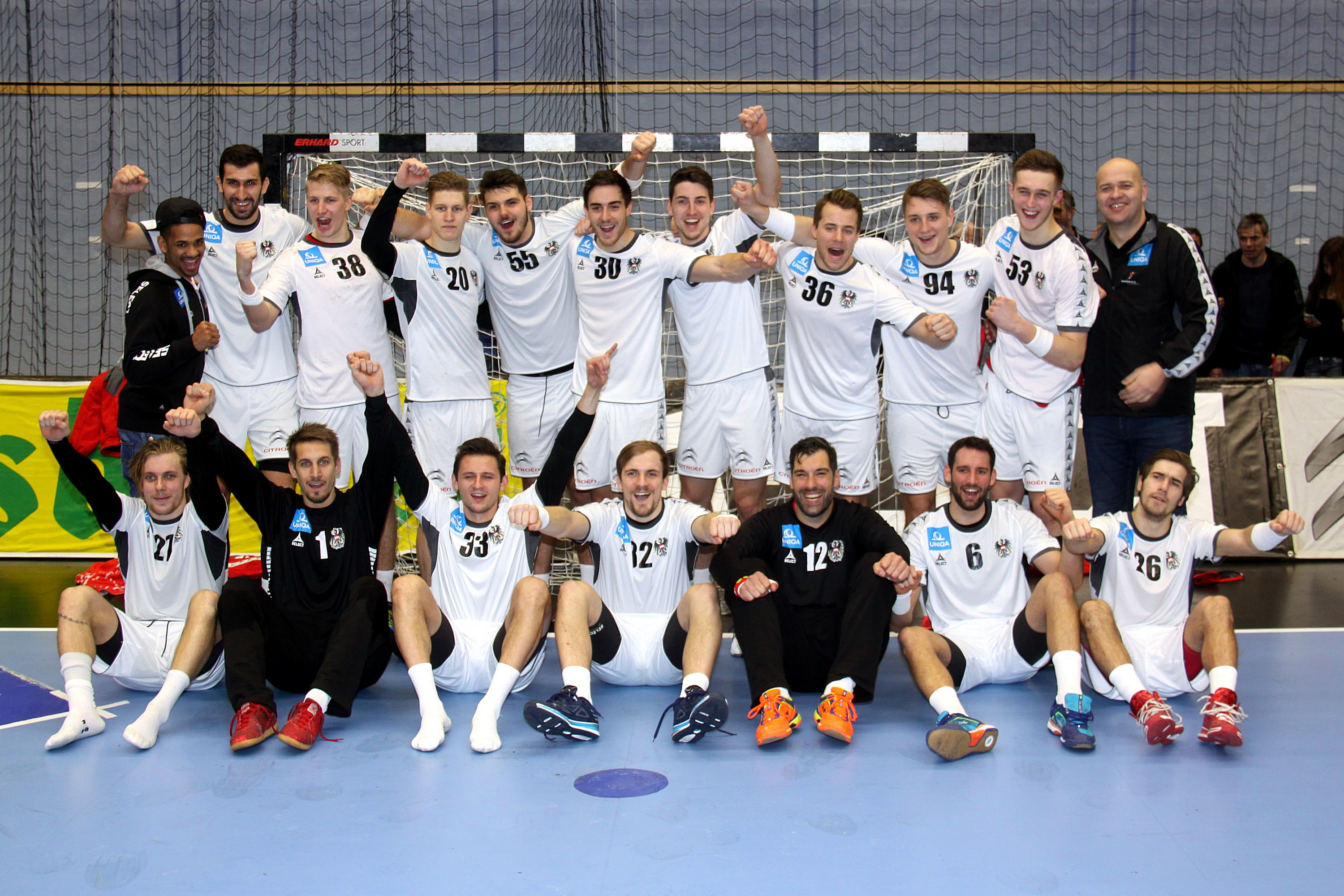 Qualification for the 2017 World Men's Handball Championship Austria national handball team vs. Finland national handball team 32-20 – The photo shows the Austrian national handball team after beating Finland, with whom she has secured the group victory.